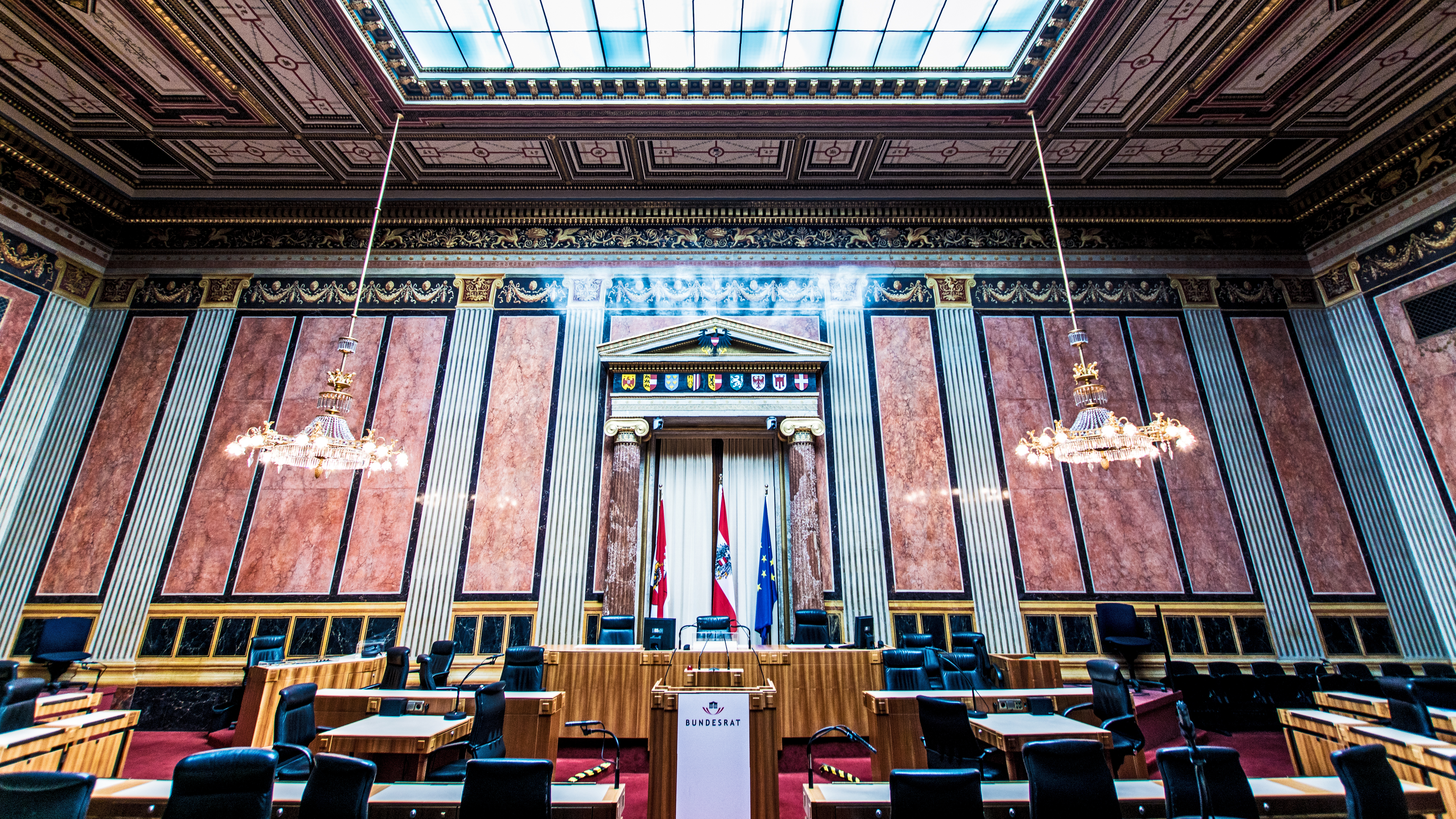 Chamber of the Federal Council of Austria, Vienna